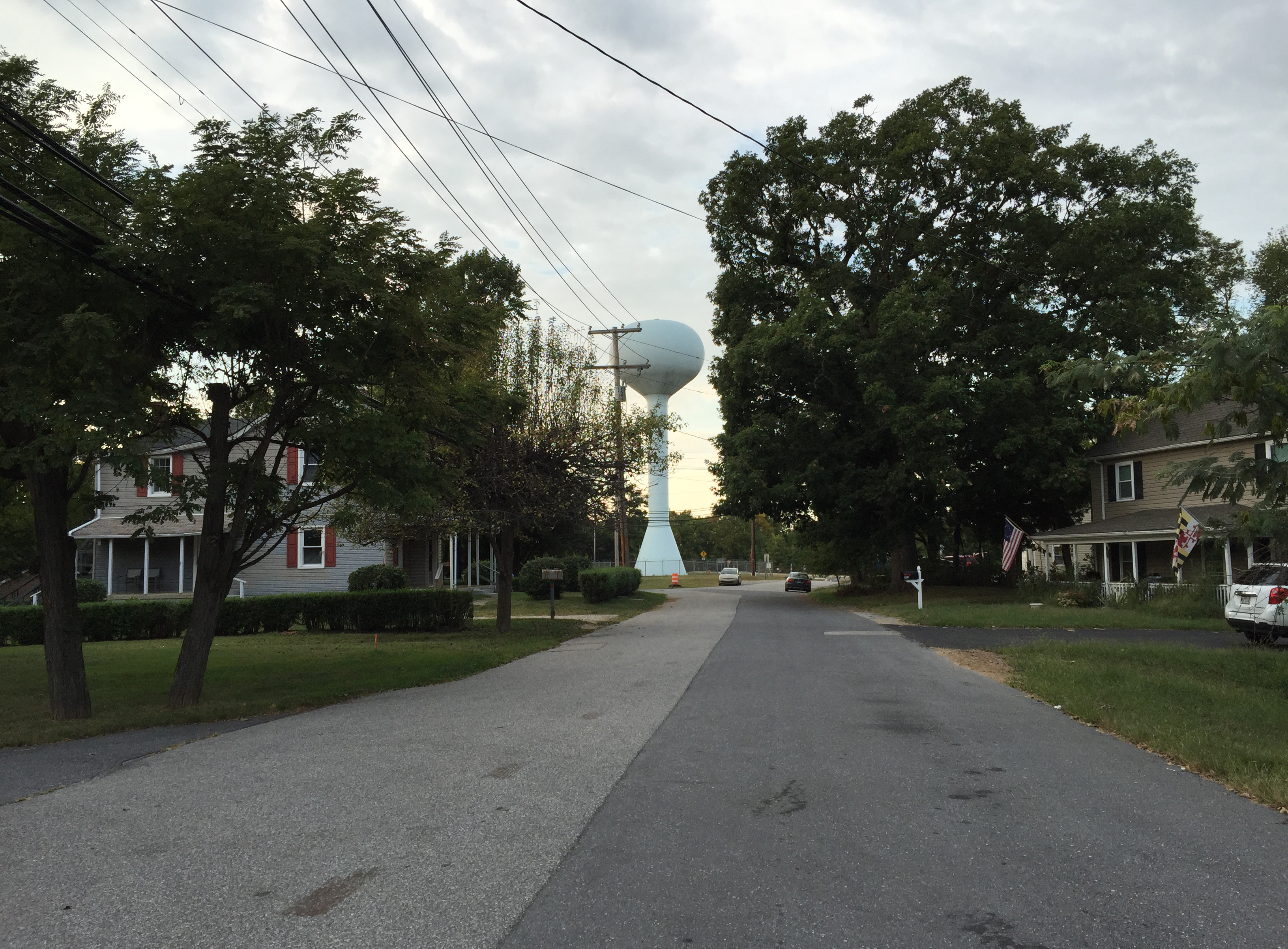 View north along Maryland State Route 981 (Tricross Drive) at Maryland State Route 108 (Waterloo Road) in Columbia, Howard County, Maryland